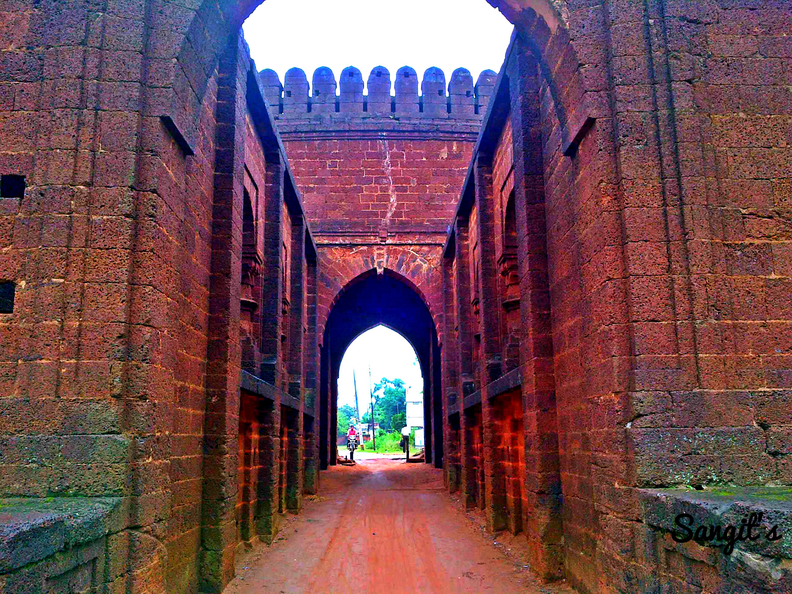 this gate is the entrance of the Malla Raja's kingdom. near 17th century